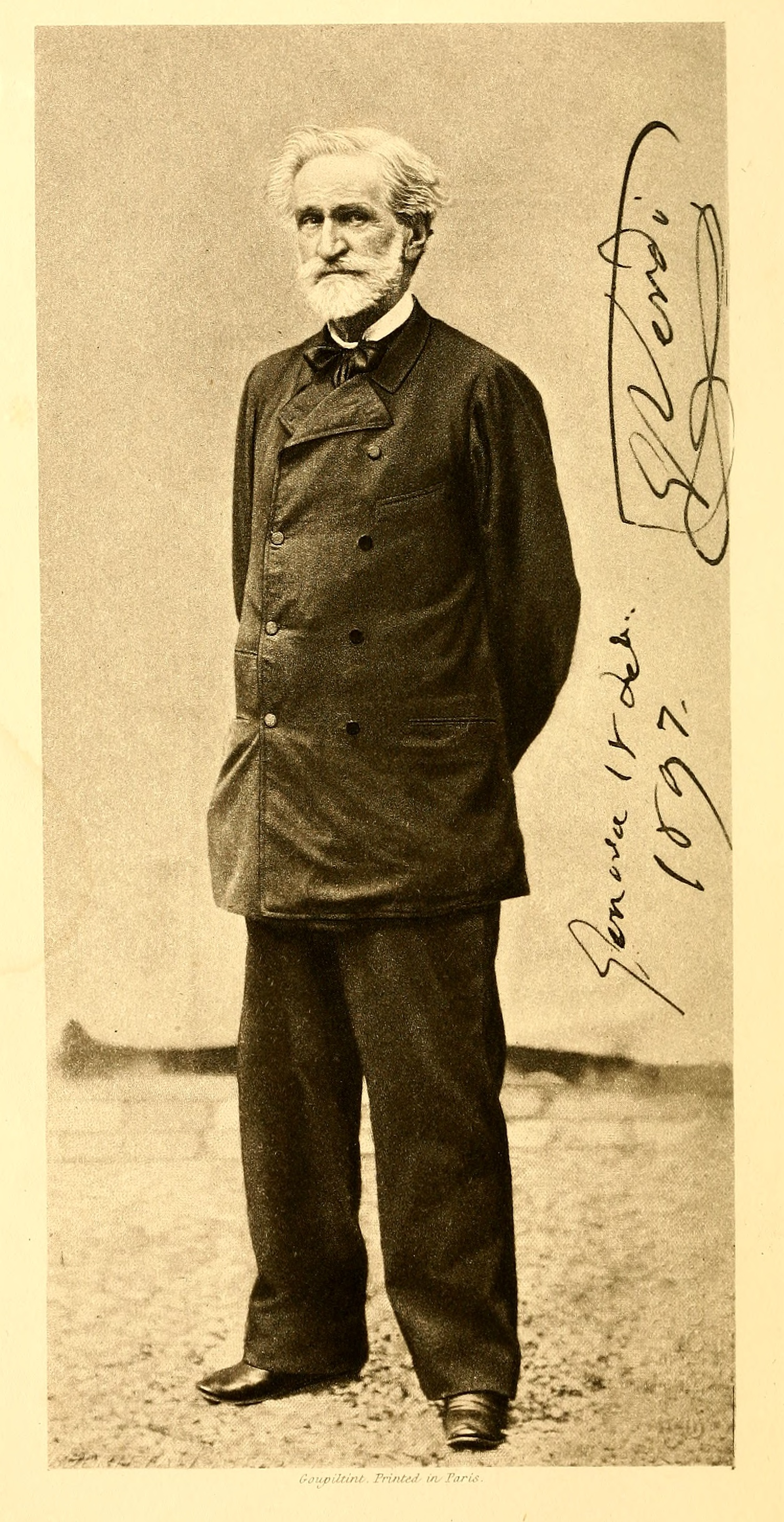 Illustration from the book given under "Source"